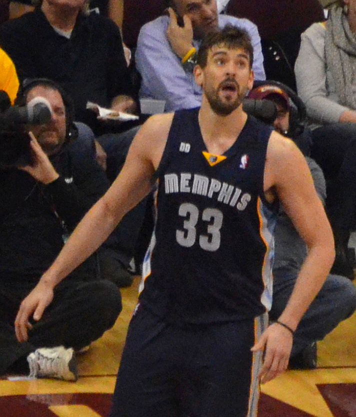 Marc Gasol, Memphis Grizzlies at Cleveland Cavaliers March 8, 2013